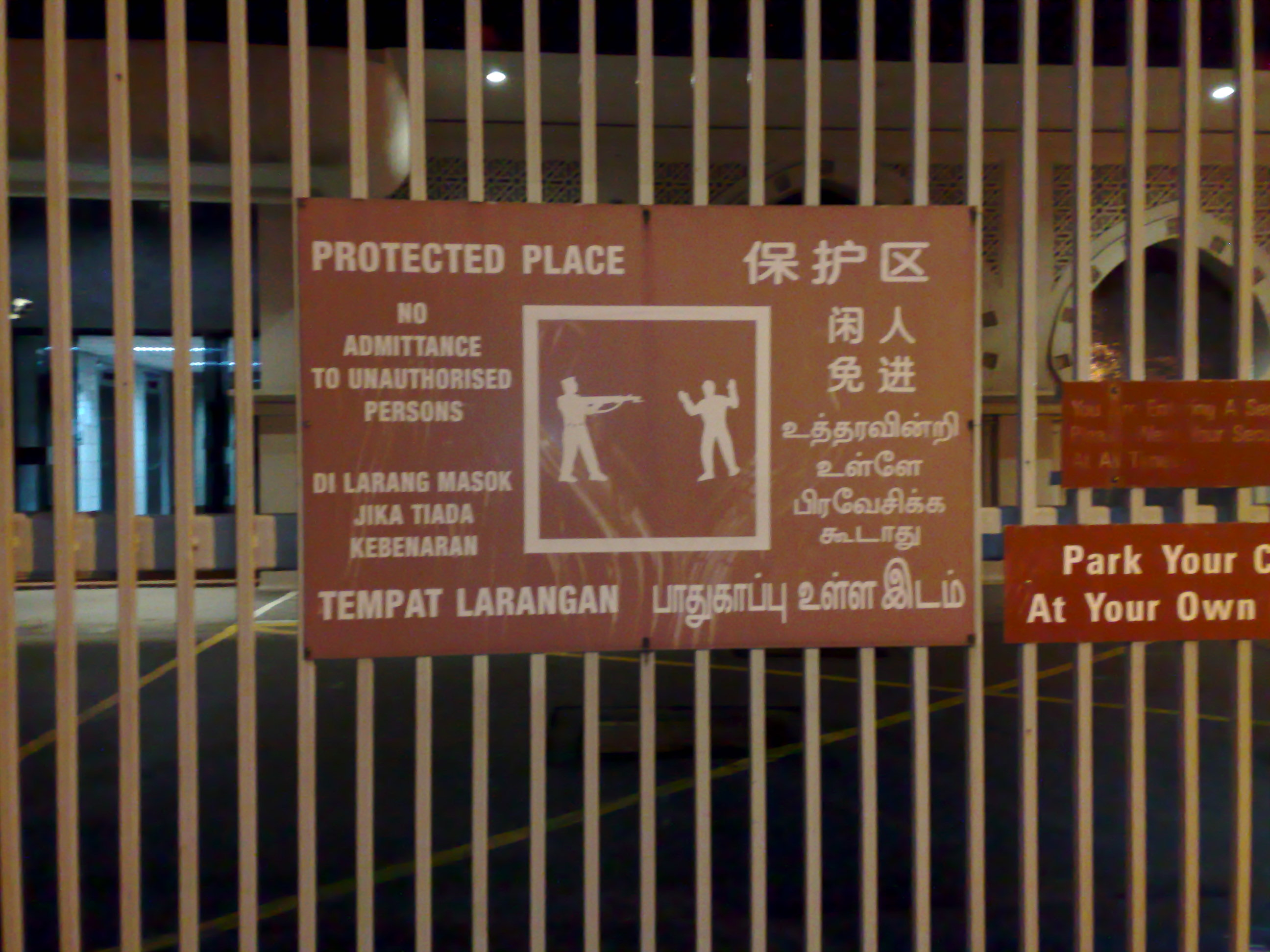 A "Protected Place" sign in English, Malay, Mandarin and Tamil on the gate of Telephone House along Hill Street, Singapore.